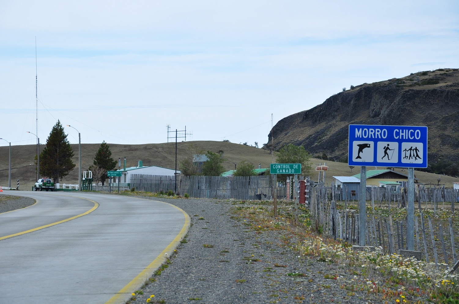 Entering Morro Chico, a hamlet on the Highway Route 9 (Ruta CH-9) in Patagonia, Chile, roughly halfway between Punta Arenas and Puerto Natales. It is part of the Municipality of Laguna Blanca.